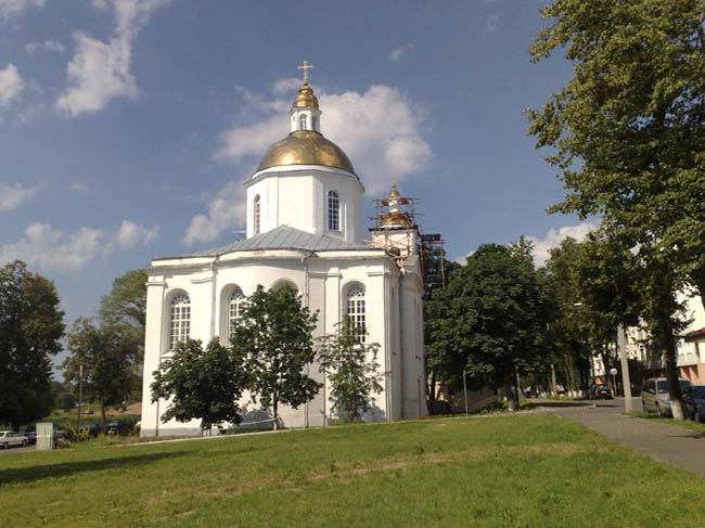 Bogoyavlensky Monastery in Polotsk (Belarus)